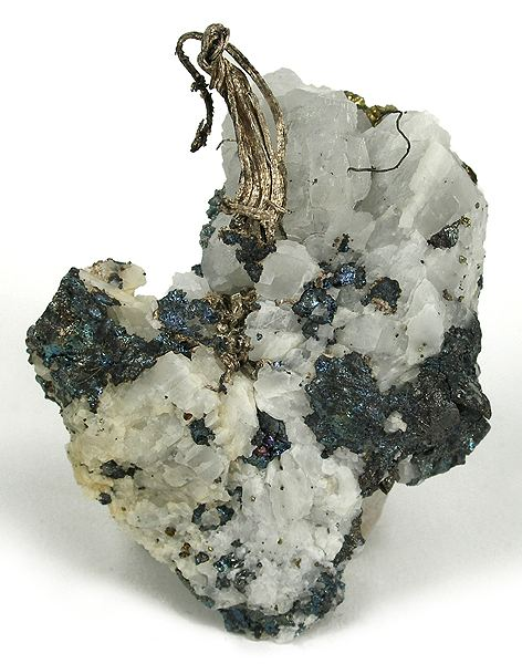 Silver, Bornite, Calcite Locality: San Martín Mine, San Martín, Municipio de Sombrerete, Zacatecas, Mexico (Locality at ) Size: 4.9 x 3.7 x 1.2 cm. A 1.8 cm, gorgeous, beautifully burnished, curved and curled, silver wire is very aesthetically set on a matrix plate of light gray calcite and accented with iridescent bornite on this most excellent specimen from the less well-known Sabino Mine of Zacatecas. A classic and very fine Zacatecas silver combination specimen from the Wes Parker Collection.